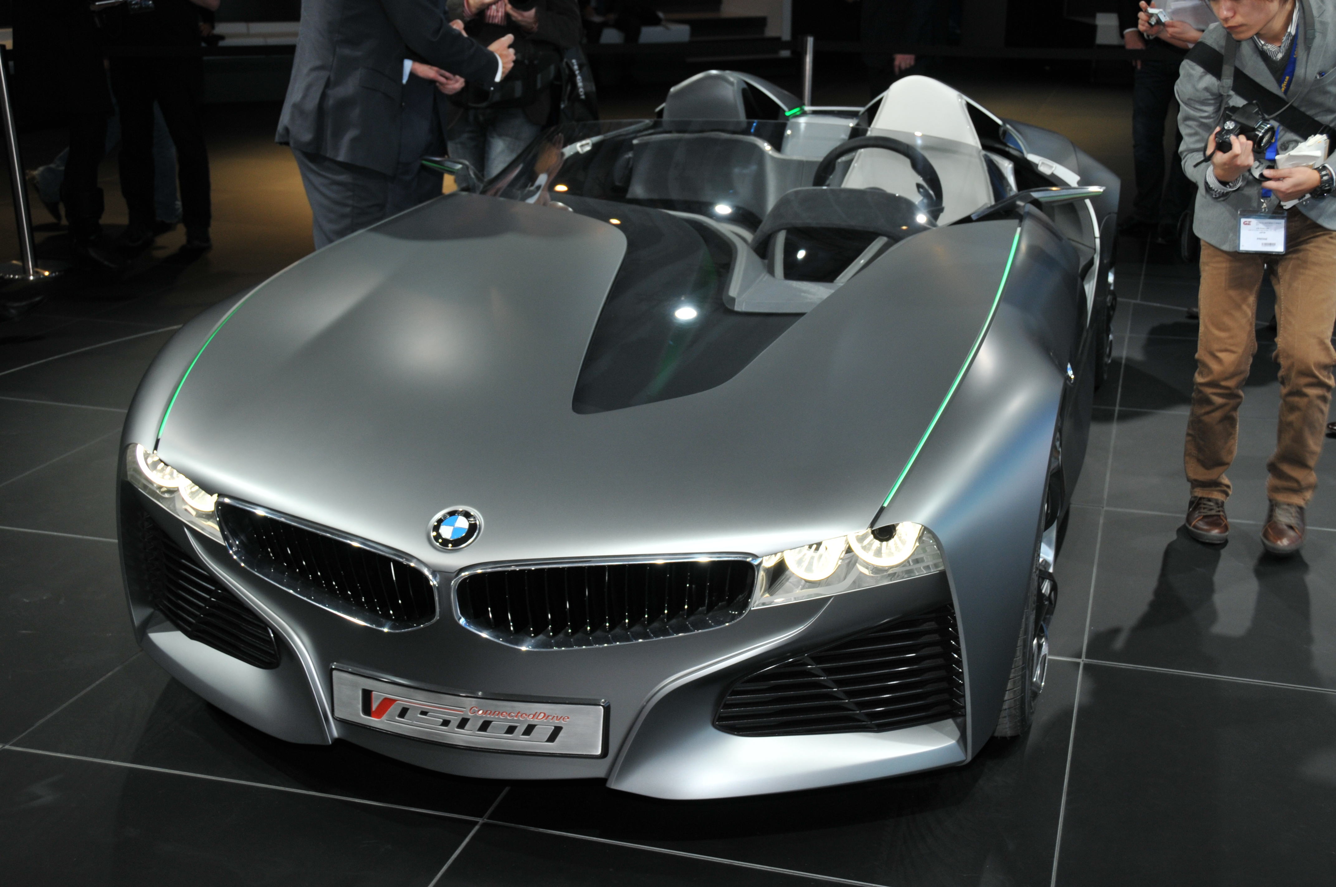 The BMW Vision ConnectedDrive at the 2011 Geneva Motor Show. More pictures and info